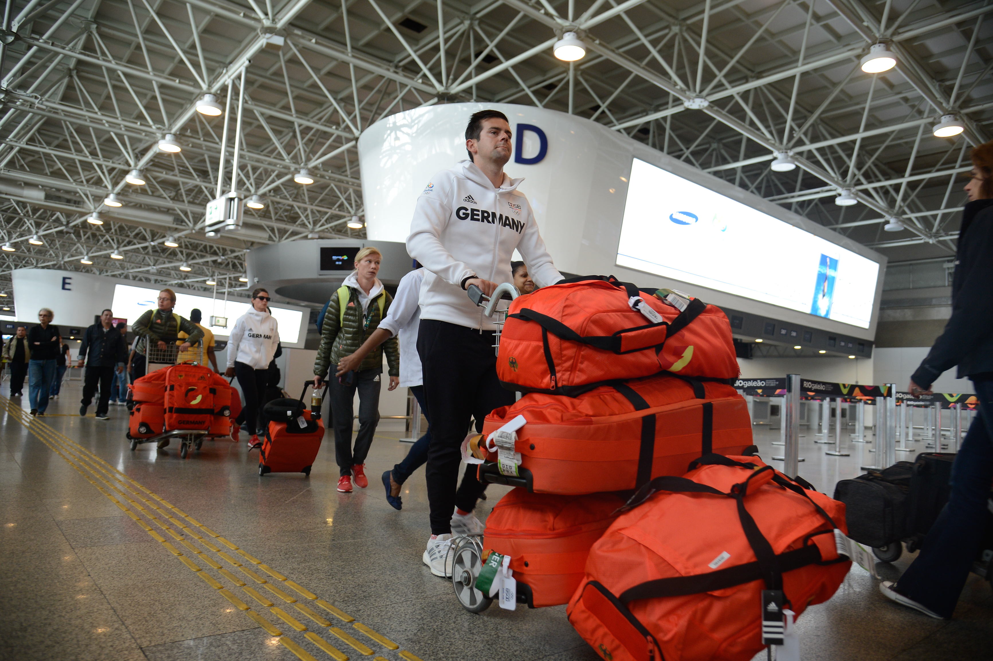 Rio de Janeiro - Aeroporto Internacional Tom Jobim, deverá registrar o maior movimento de passageiros em toda a sua história, segundo a concessionária RioGaleão devido a Rio 2016 (Tânia Rêgo/Agência Brasil)